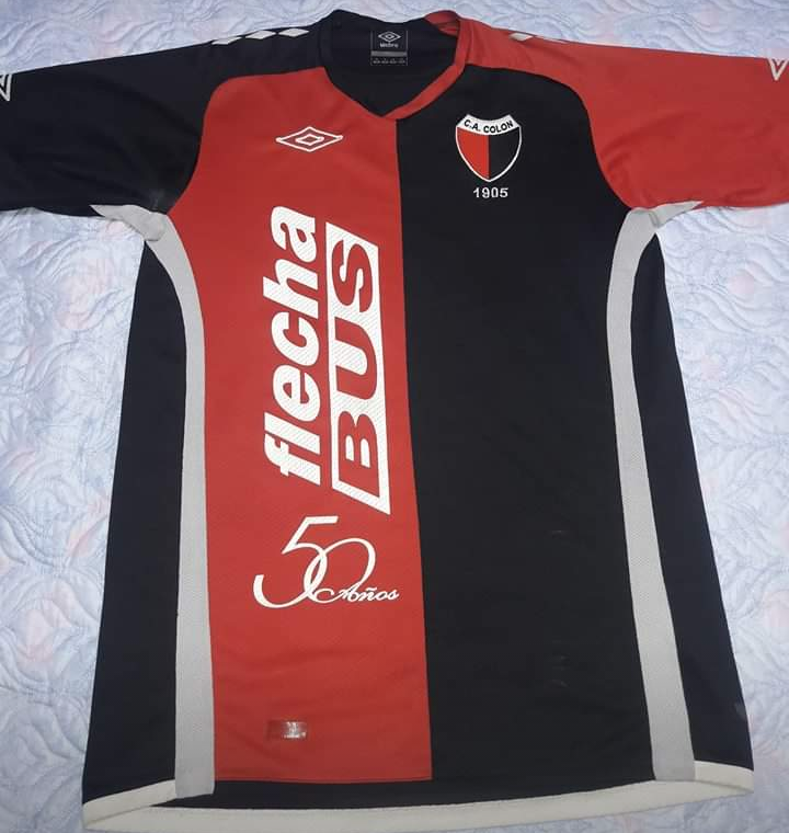 T-shirt holder of Colón 2009-10